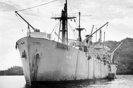 Serpens (AK-97) moored pierside, date and place unknown. US Navy photo #NH 89186, from the collections of the US Naval Historical Center, courtesy William H Davis, 1997